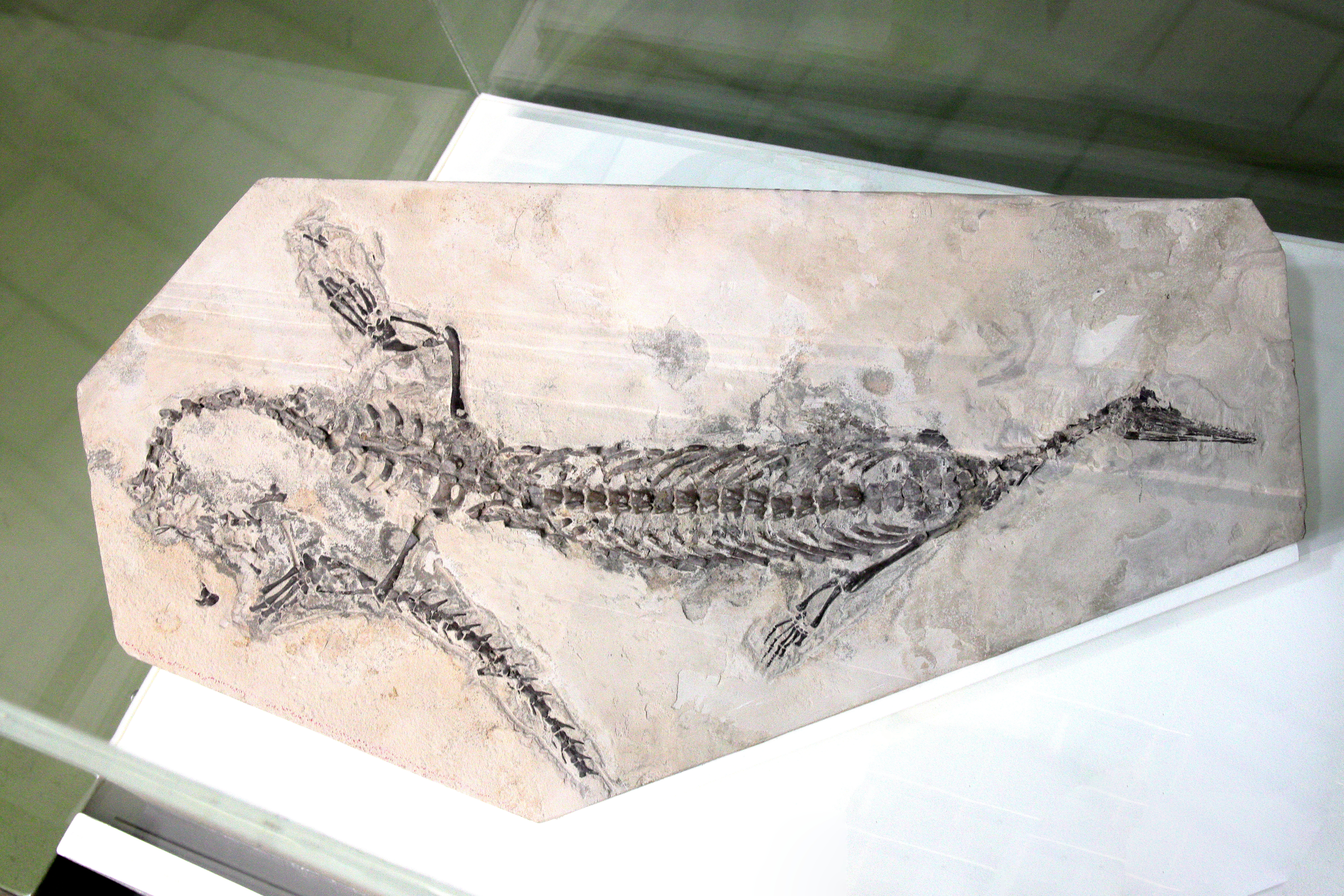 Picture of a fossilized Mesosaur. Taken at California Academy of Sciences, San Francisco, USA.